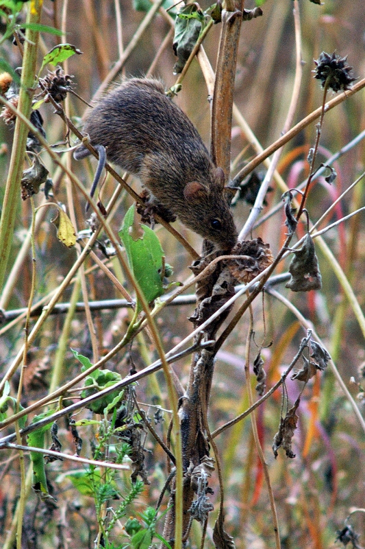 Hispid Cotton Rats (Sigmodon hispidus) clip vegetation to gain access to food that is out of reach. Here, the Cotton Rat is foraging on sunflower seeds. This individual was located at Cheyenne Bottoms Wildlife Area in Barton County, Kansas.